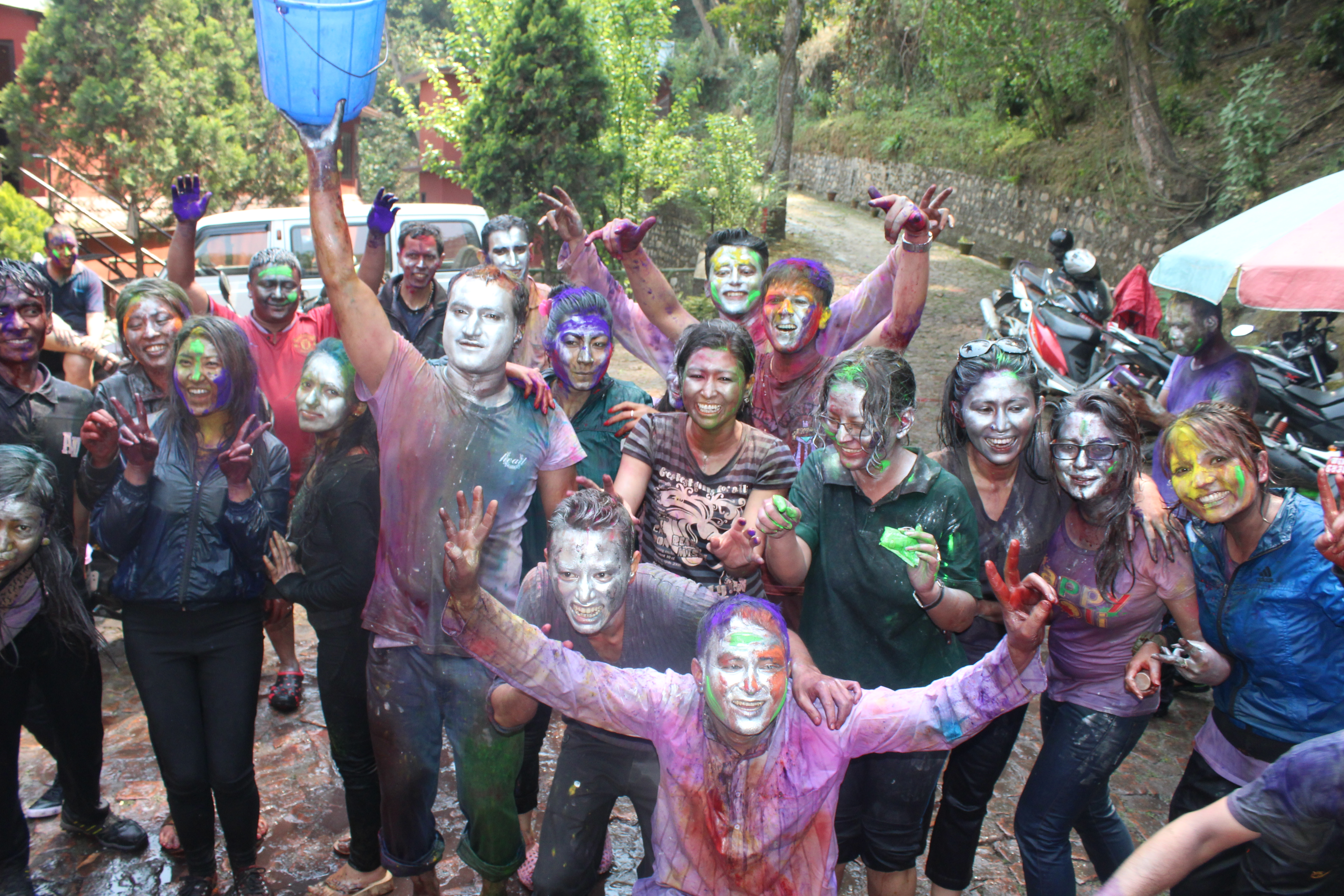 Locals Playing holi in Kathmandu, Nepal